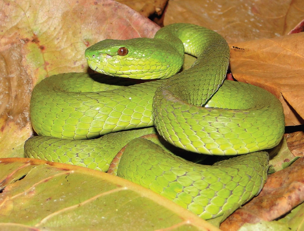 Trimeresurus insularis. Female (USNM [CMD 594], SVL 684 mm, TL 784 mm) from the flood plain of Lake Ira Lalaro, Lautém District.